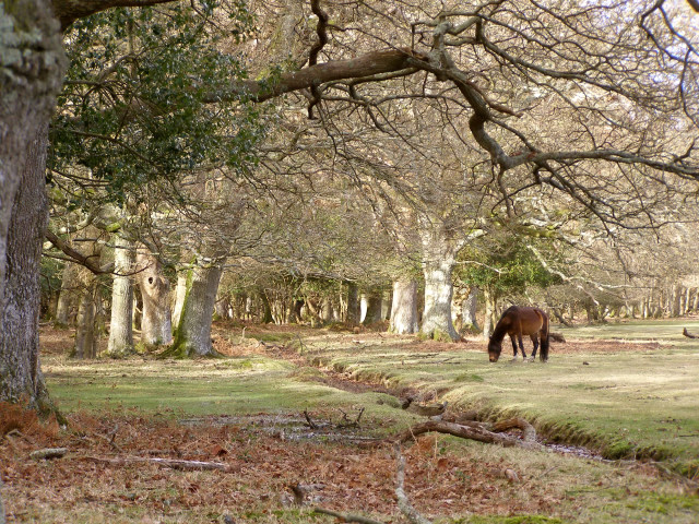 Red Shoot Wood meets Greenford Bottom, New Forest. The pony in this picture is grazing on the edge of the lawn at Greenford Bottom, at the south-eastern corner of Red Shoot Wood.